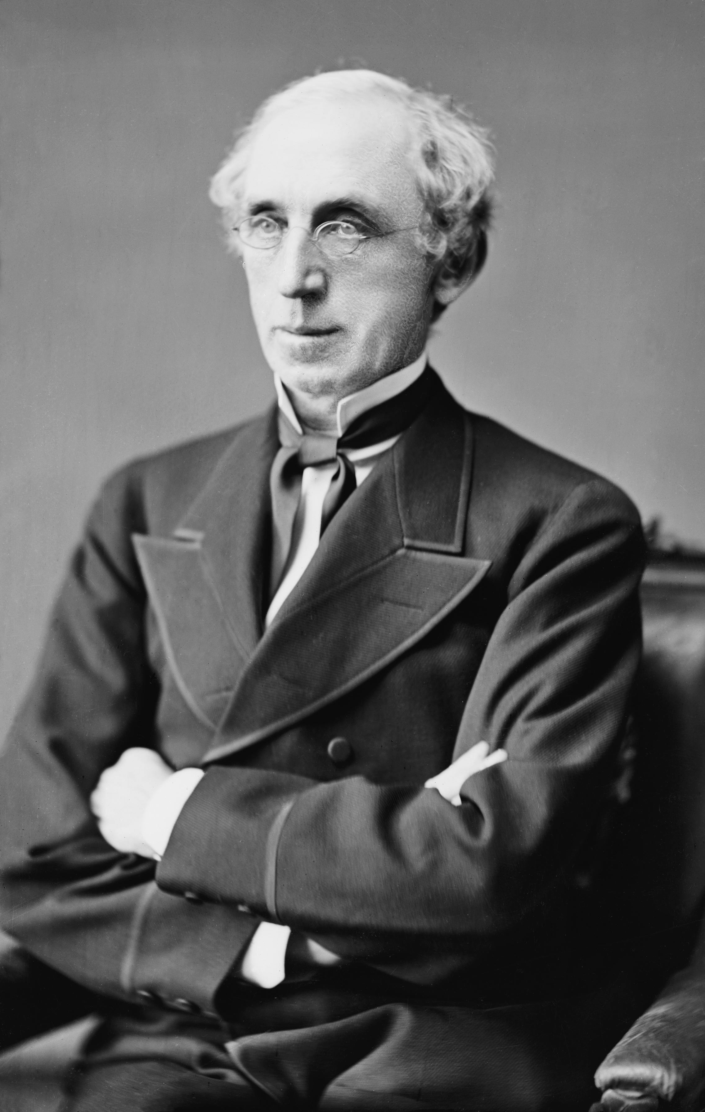 Henry B. Payne. Library of Congress description: "Payne, Hon. H.B. of Ohio".